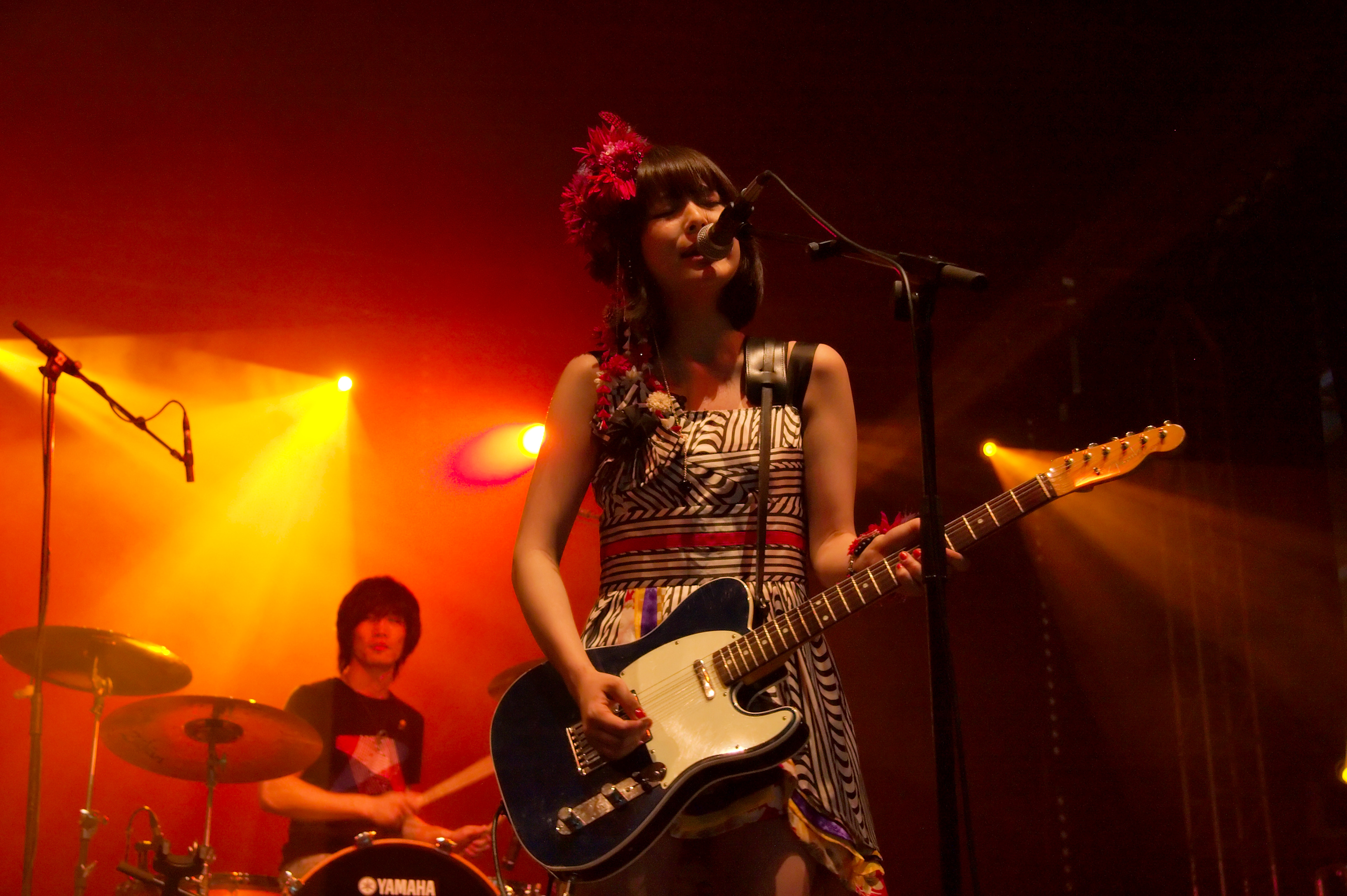 School Food Punishment live at Japan Expo 2009 (Paris, France)